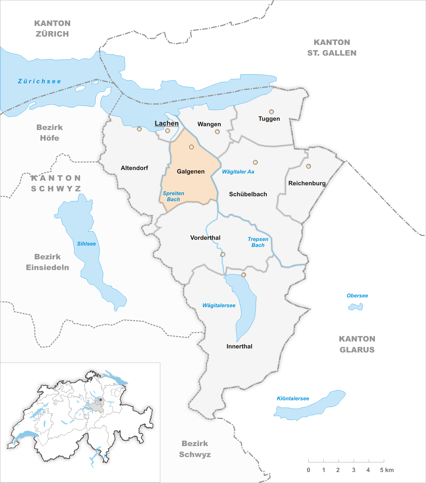 Municipality Galgenen